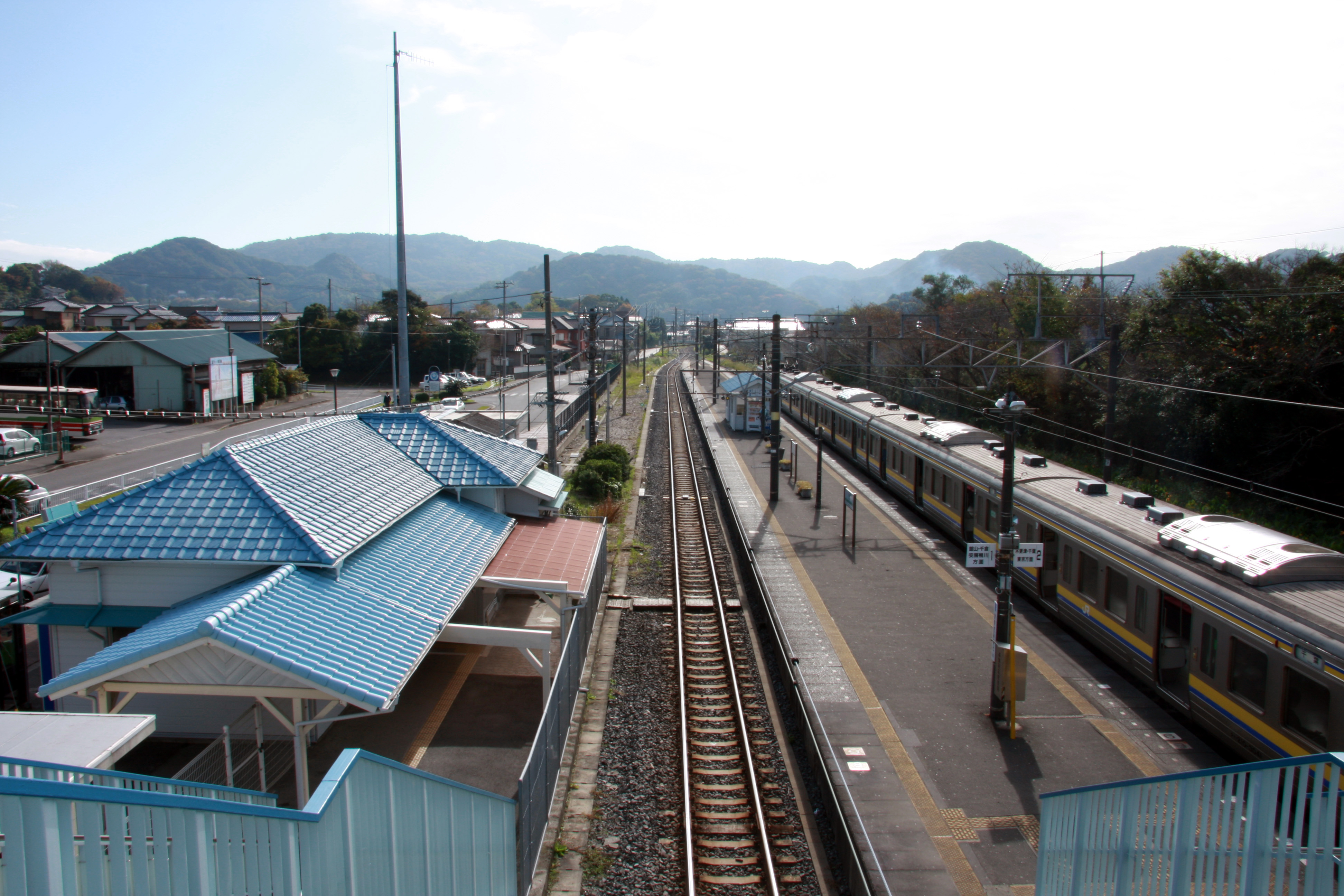 Kazusaminato Station (Chiba, Japan)